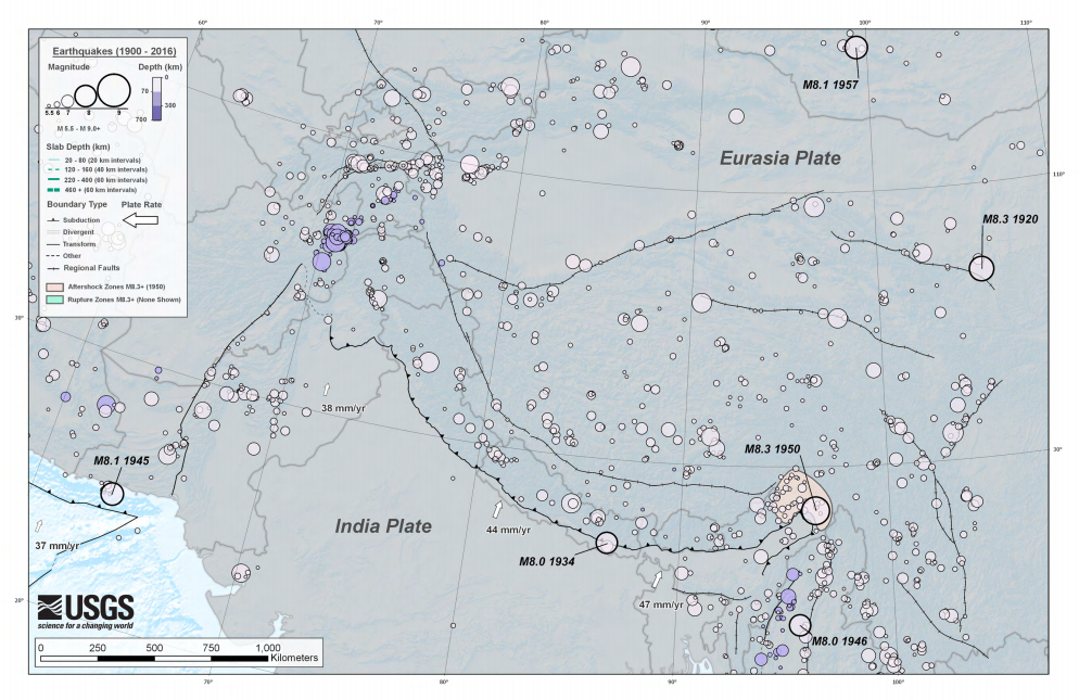 Earthquakes M5.5+ (1900-2016) himalaya Circle sizes indicate Magnitude, and colors indicate their depth.